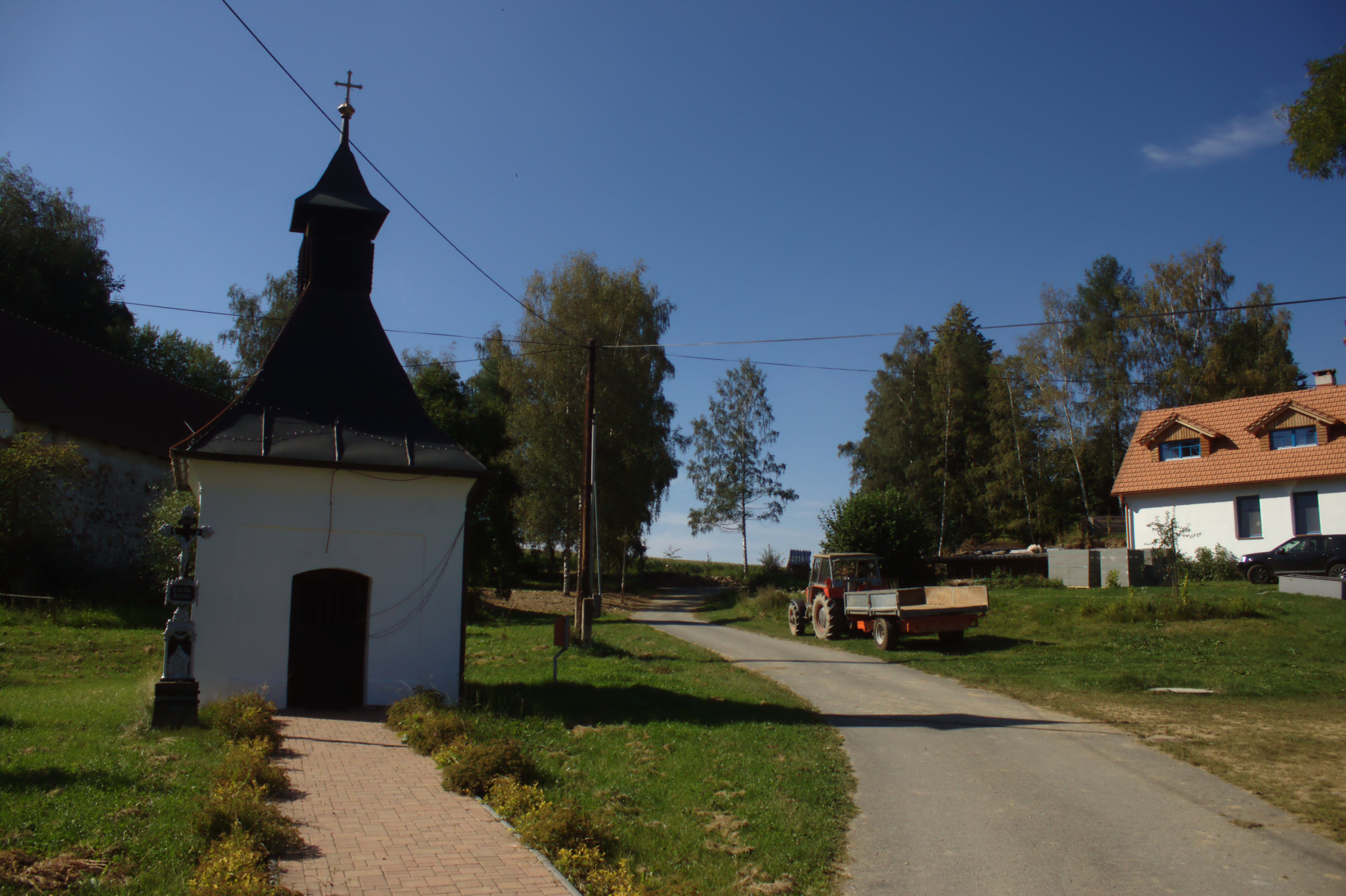 Main road in the village of Velká Černá to the main chapel